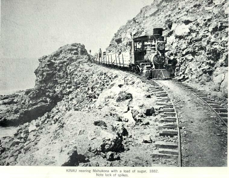 KINAU nearing Mahukona with a narrow gauge train loaded with sugar, 1882